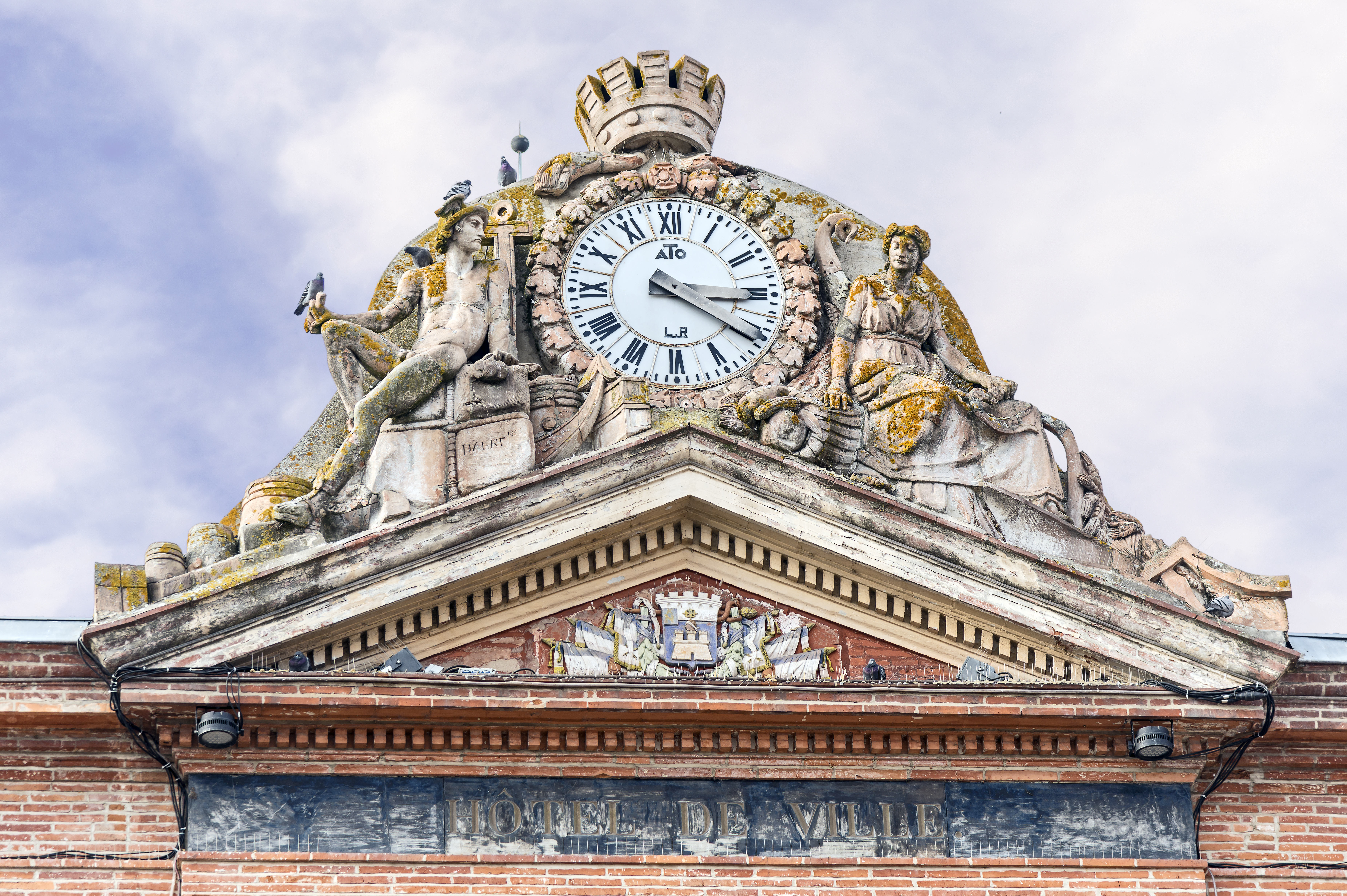 Castelsarrasin, Tarn-et-Garonne. Town hall. Building built between 1823 and 1825 by architect Rivet. The pediment has an illuminating clock manufactured by the greatest watchmaker of the time, the Parisian Lepaute, in 1847; this clock is framed by the statues of Minerva (trade) and Ceres (agriculture), work of the Toulouse sculptor Palat.